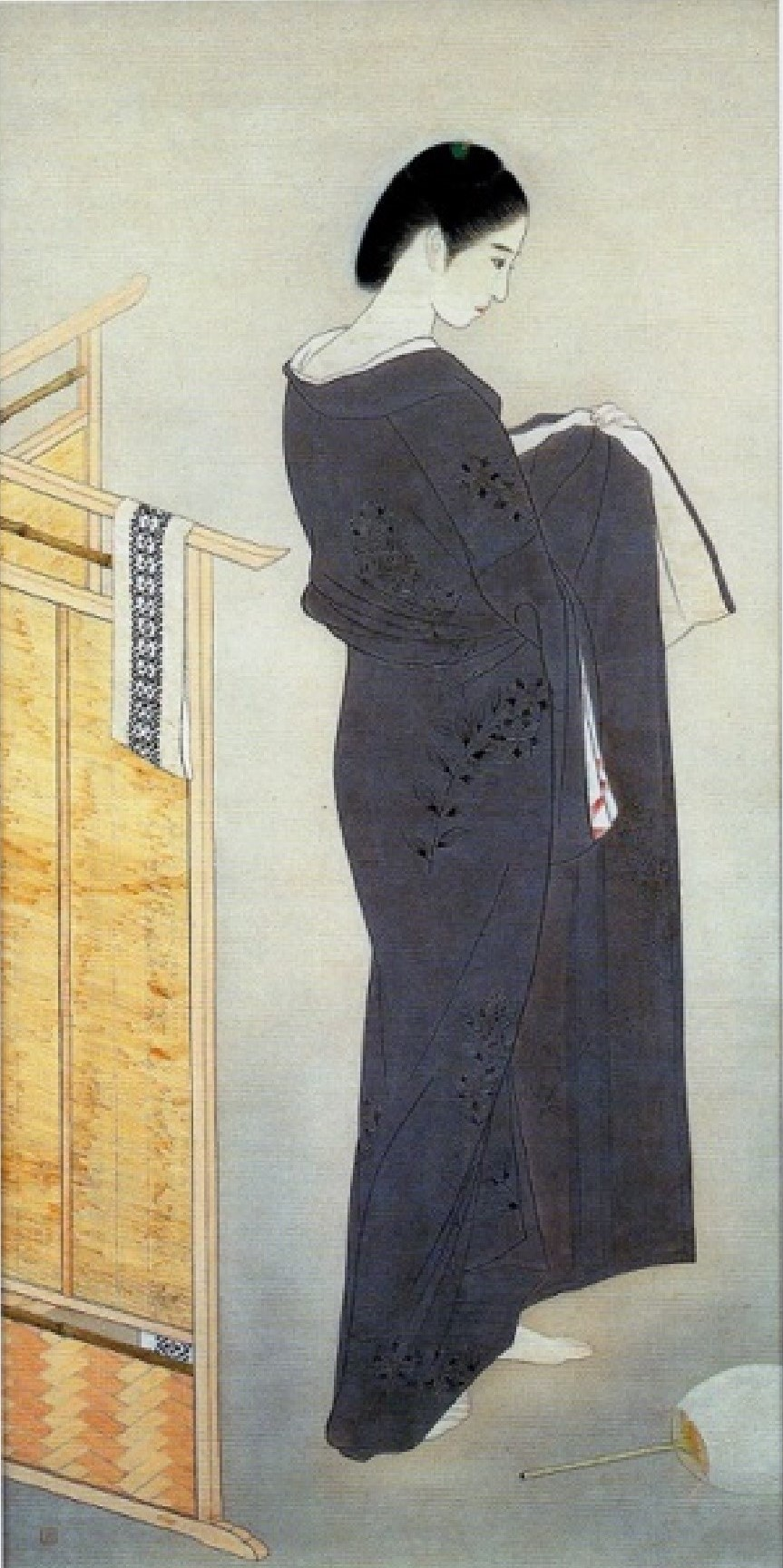 Painting by Kobayakawa